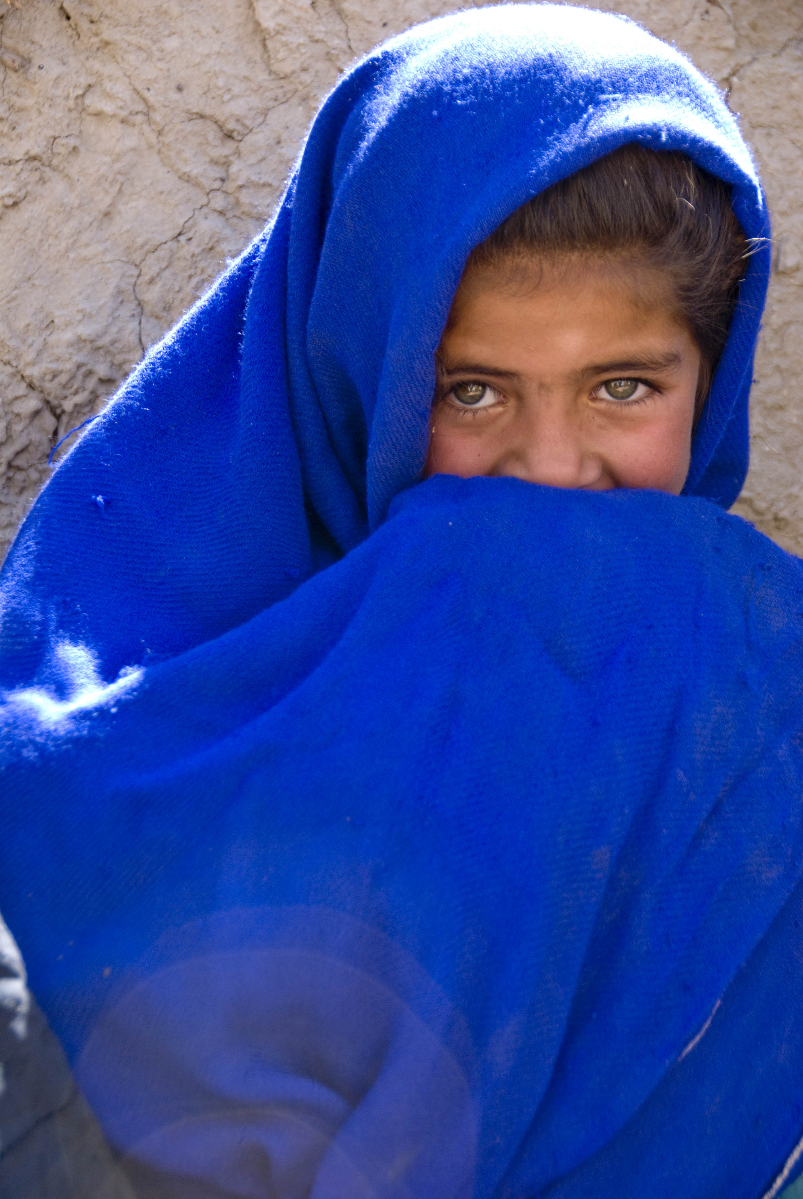 Afghan children, like the girl pictured, from Kandahar Province's Panjwai District met with U.S. Special Forces Soldiers assigned to Special Operations Task Force – South during the team's security patrol in the district, Feb. 20, 2011. The SOTF-South Special Forces team in the area conducts regular patrols in order to bolster security as well as to meet with area villagers to assess development projects. (U.S. Army photo by Spc. Kelly Fox)(Released).